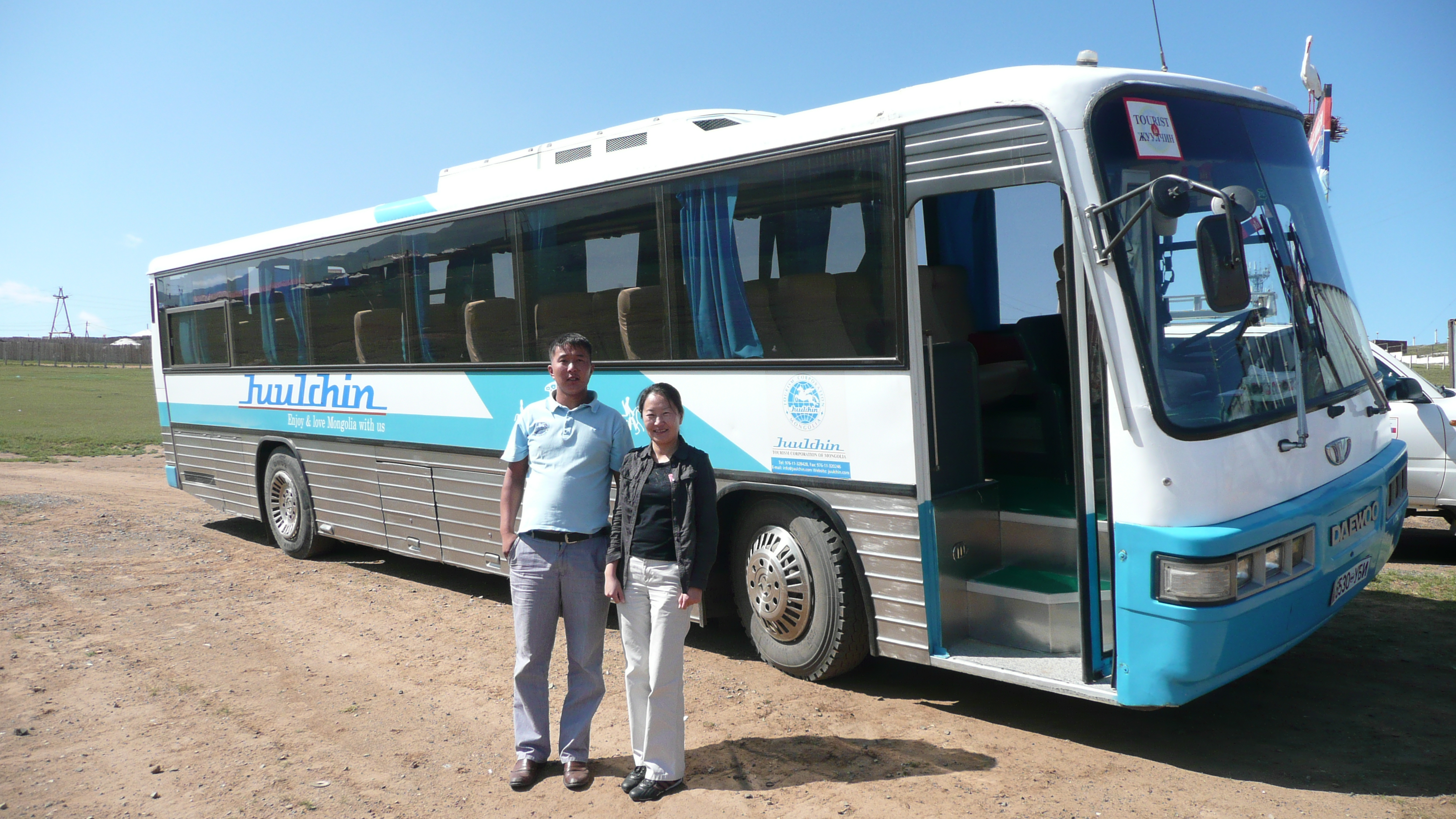 Bus of the Juulchin Tourism Corporation of Mongolia with guide and driver)